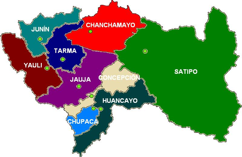 Provinces of Junín Region